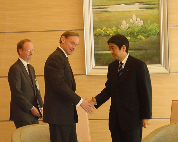 Deputy Secretary of State Robert Zoellick pays a courtesy call on Japans Chief Cabinet Secretary Shinzo Abe on January 23, 2006 at the prime ministers official residence in Tokyo. U.S. Embassy Tokyo photo.